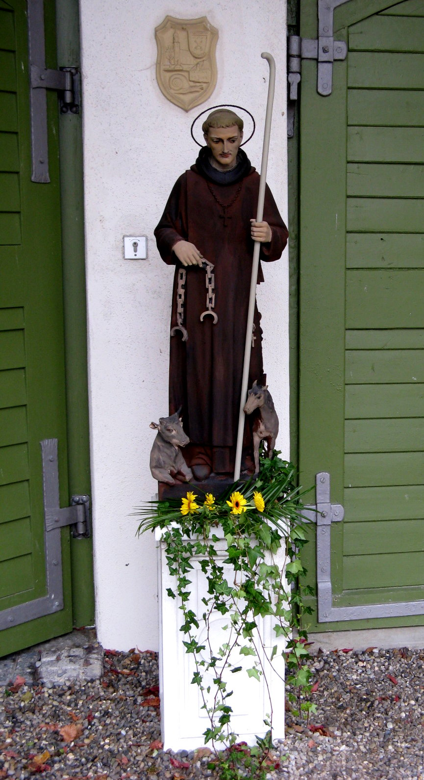 Statue of Saint Leonard in Bannacker, Augsburg, Bavaria